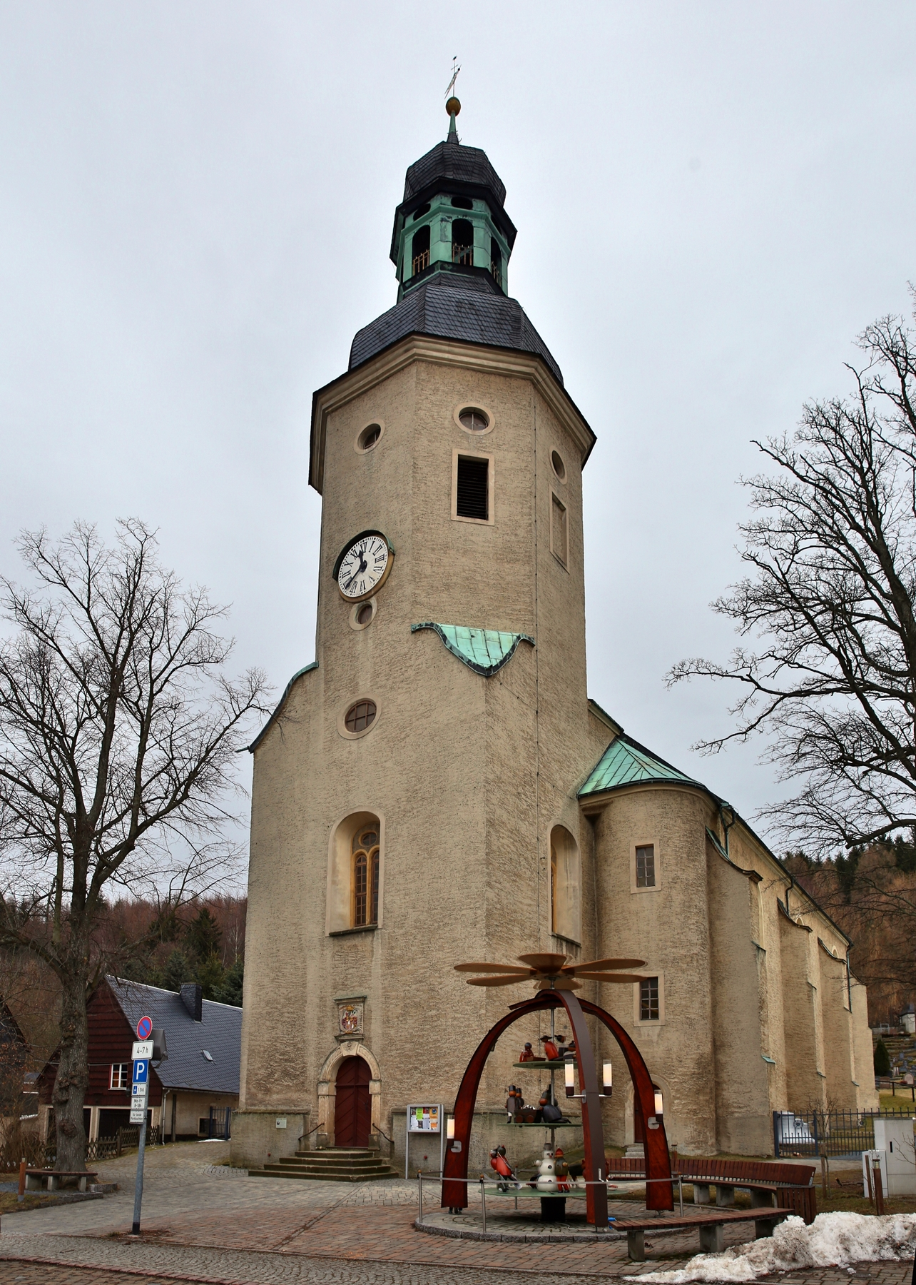 Geising - evangelic church, built 1689/1690.